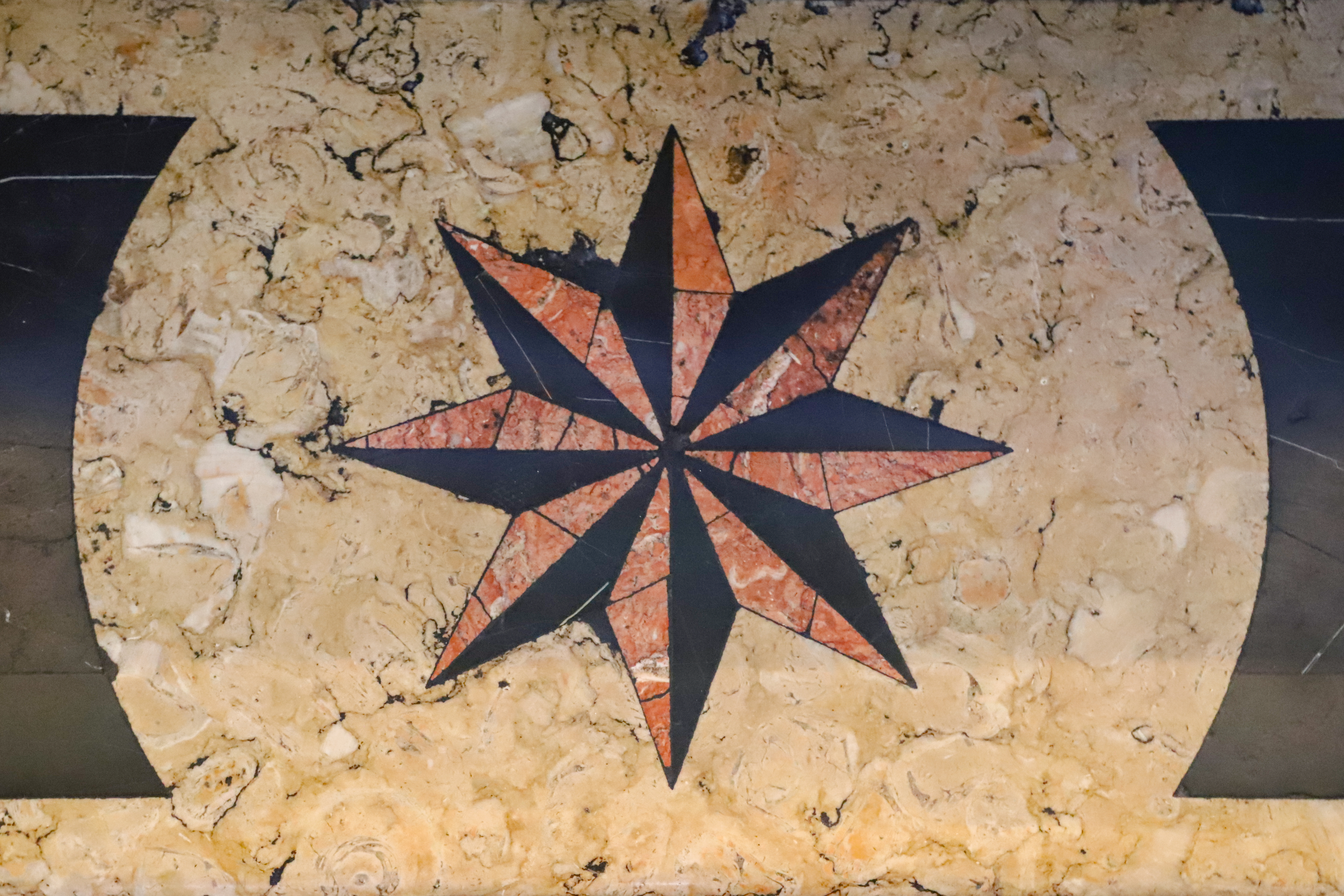 Flooring in white and red marble and black limestone. Nossa Senhora da Conceição da Praia Church (Church of Our Lady of the Conception of Praia), Salvador, Bahia, Brazil.